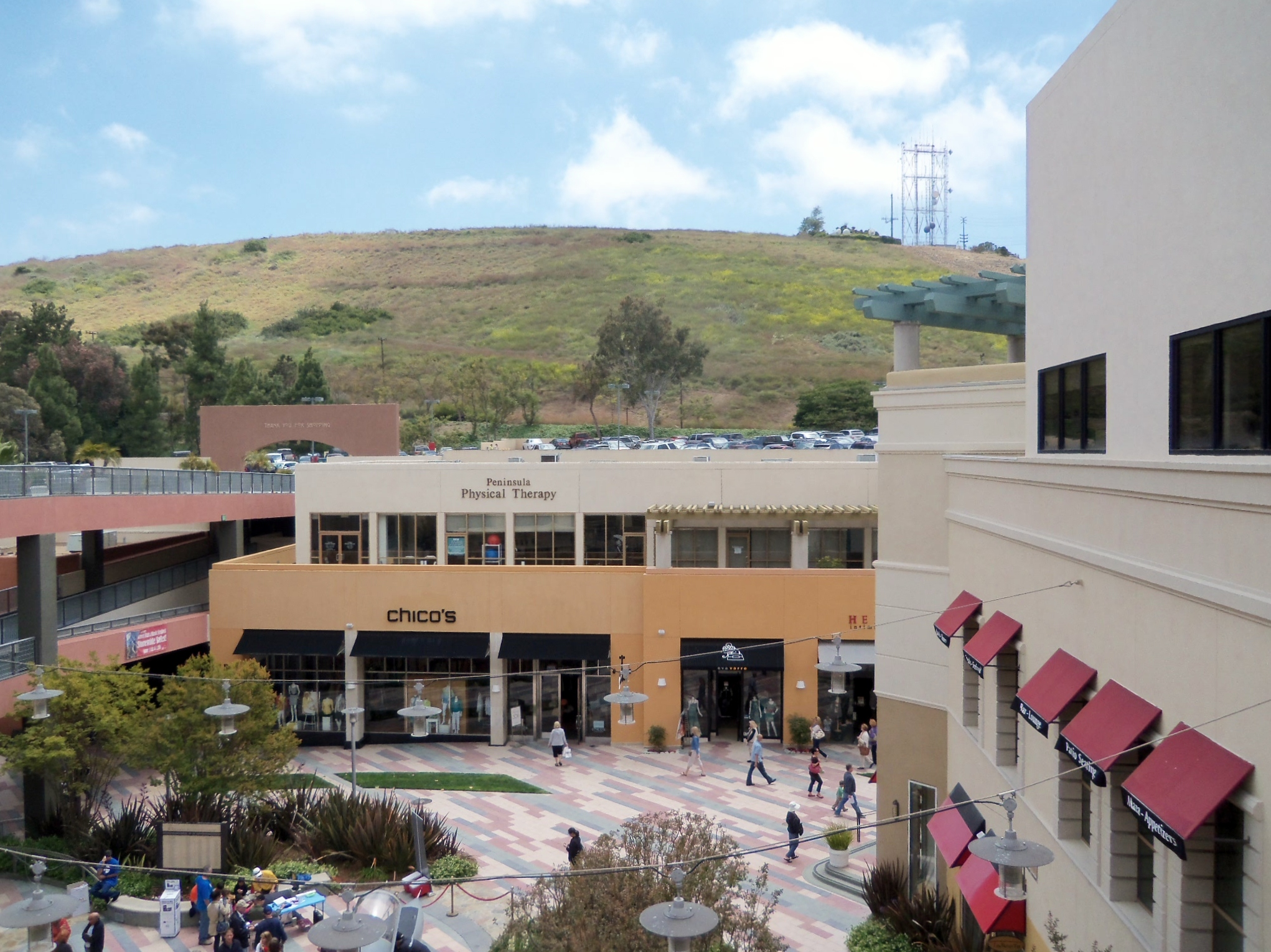 Palos Verdes Street Fair & Music Festival — at the Promenade on the Peninisula (2011). Located in Rolling Hills Estates, on the Palos Verdes Peninsula, Southern California.